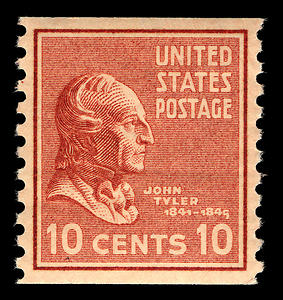 1938 u.s. postage stamp of John Tyler